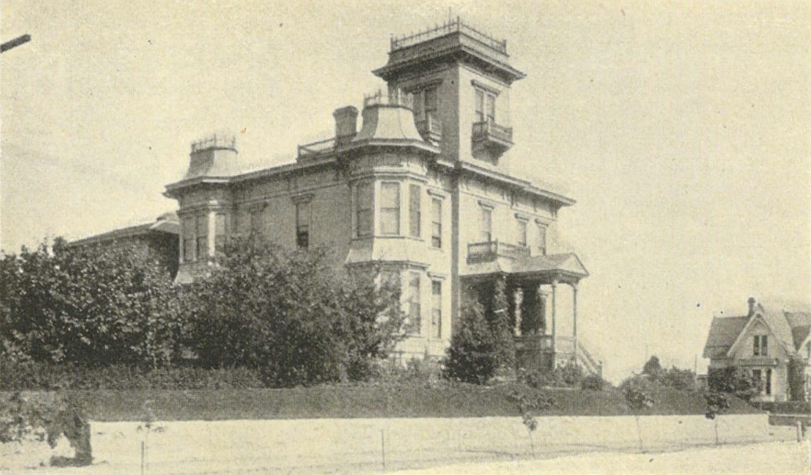 "Residence of the late Granville O. Haller, Colonel U.S. Army, 605 Minor Avenue," from brochure Seattle and the Orient (1900).